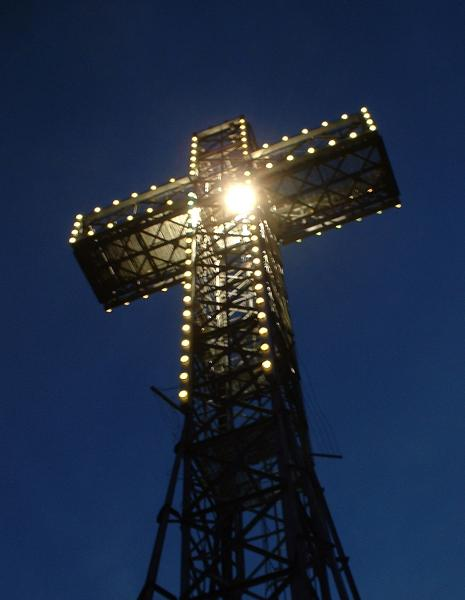 Cross on top of Mount Royal, at night. Taken by User:Aarchiba